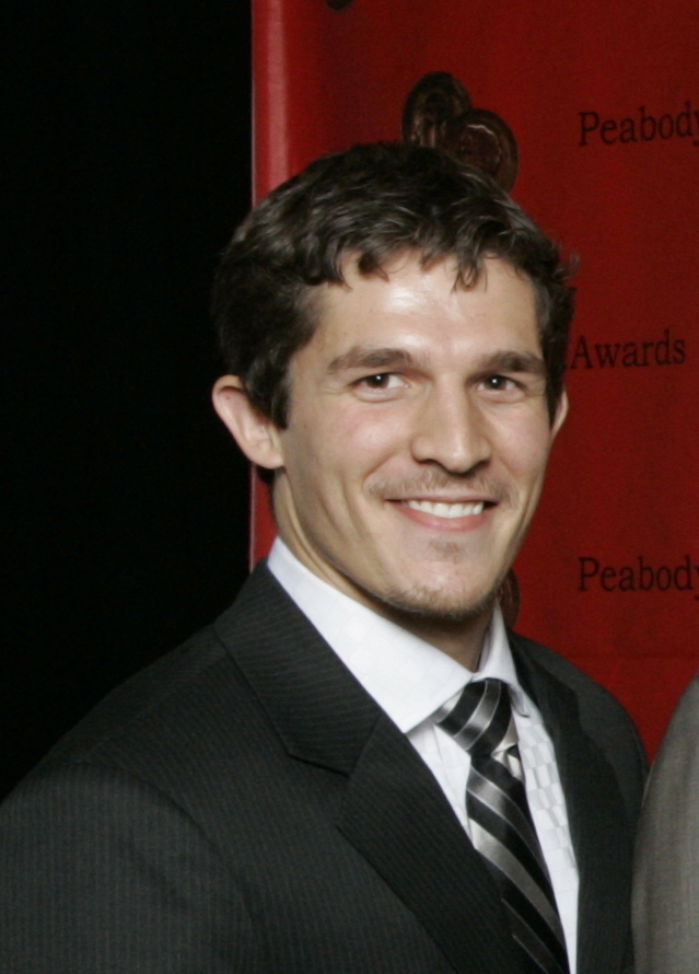 Nate Ball, Dorothy Dickie, Marisa Wolsky, Thea Sahr and David Wallace 67th Annual Peabody Awards Luncheon Waldorf=Astoria Hotel New York, NY USA June 16, 2008